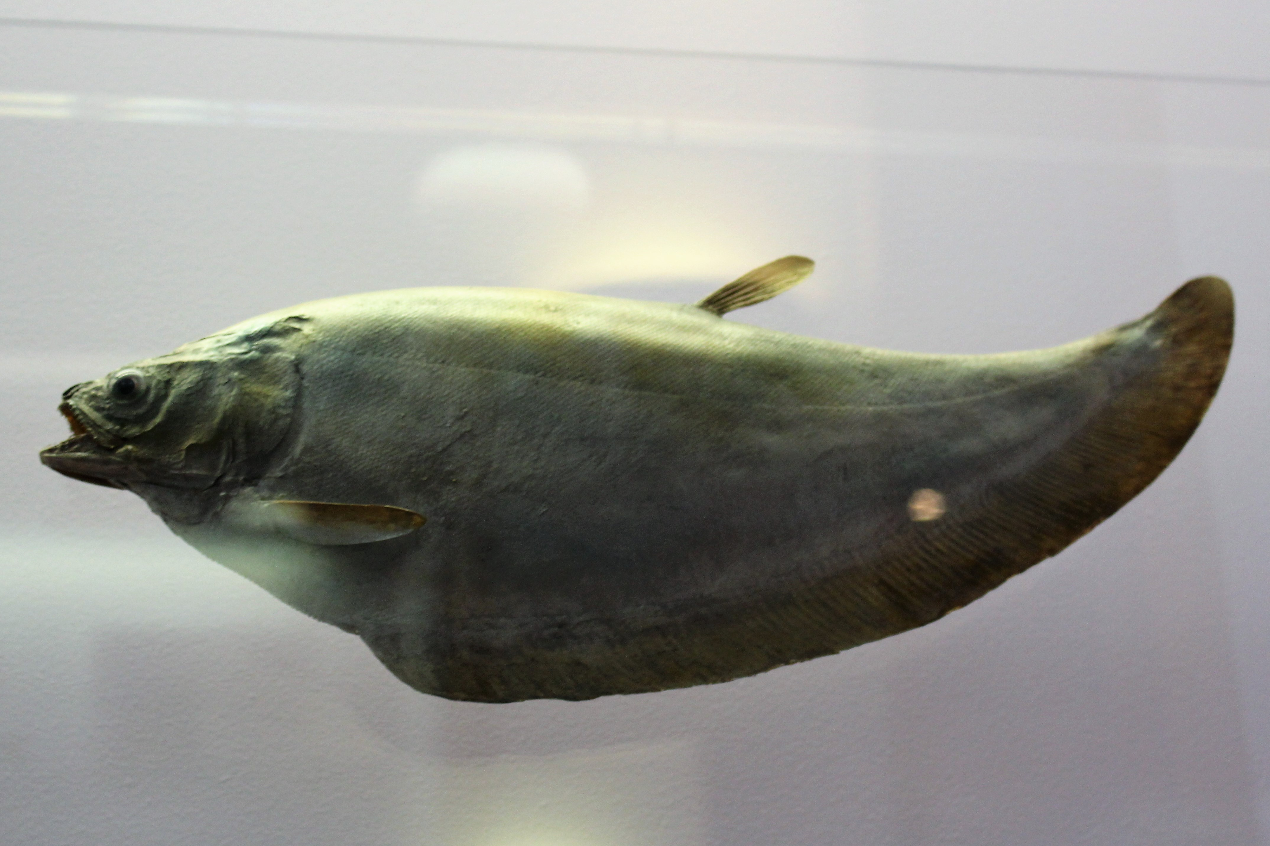 Chitala chitala model at the Natural History Museum in London, England.